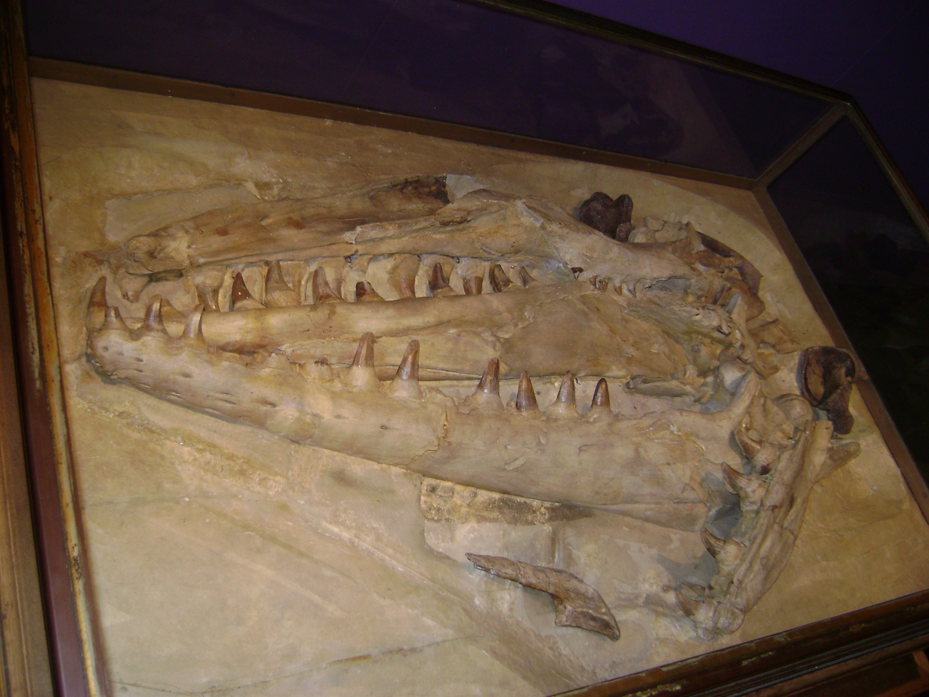 The skull of Mosasaurus hoffmannii as temporarily exhibited in Maastricht